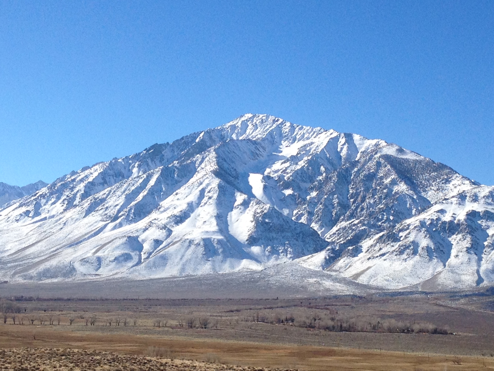 Mt. Tom shot from Highway 395 to the east